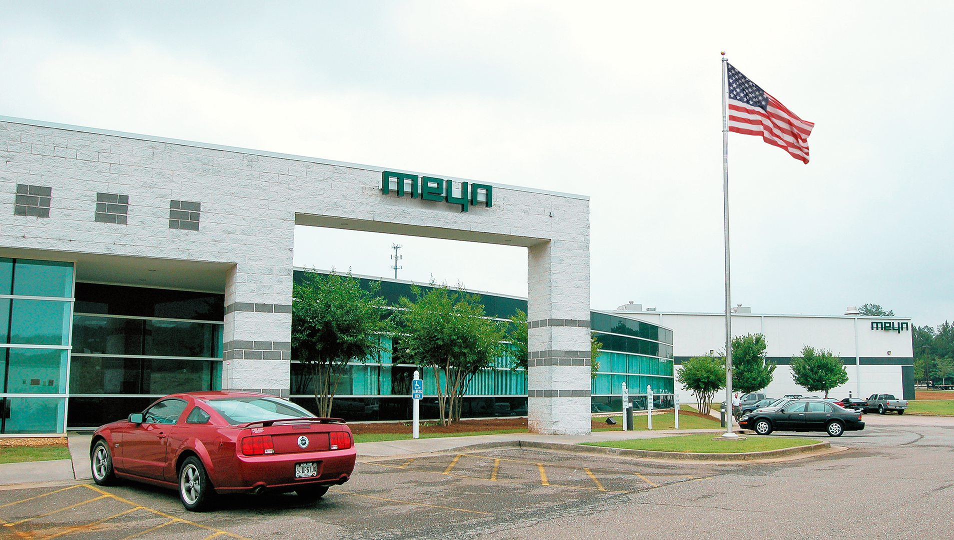 Meyn USA office, 1000 Evenflo Dr, Ball Ground, GA 30107, USA